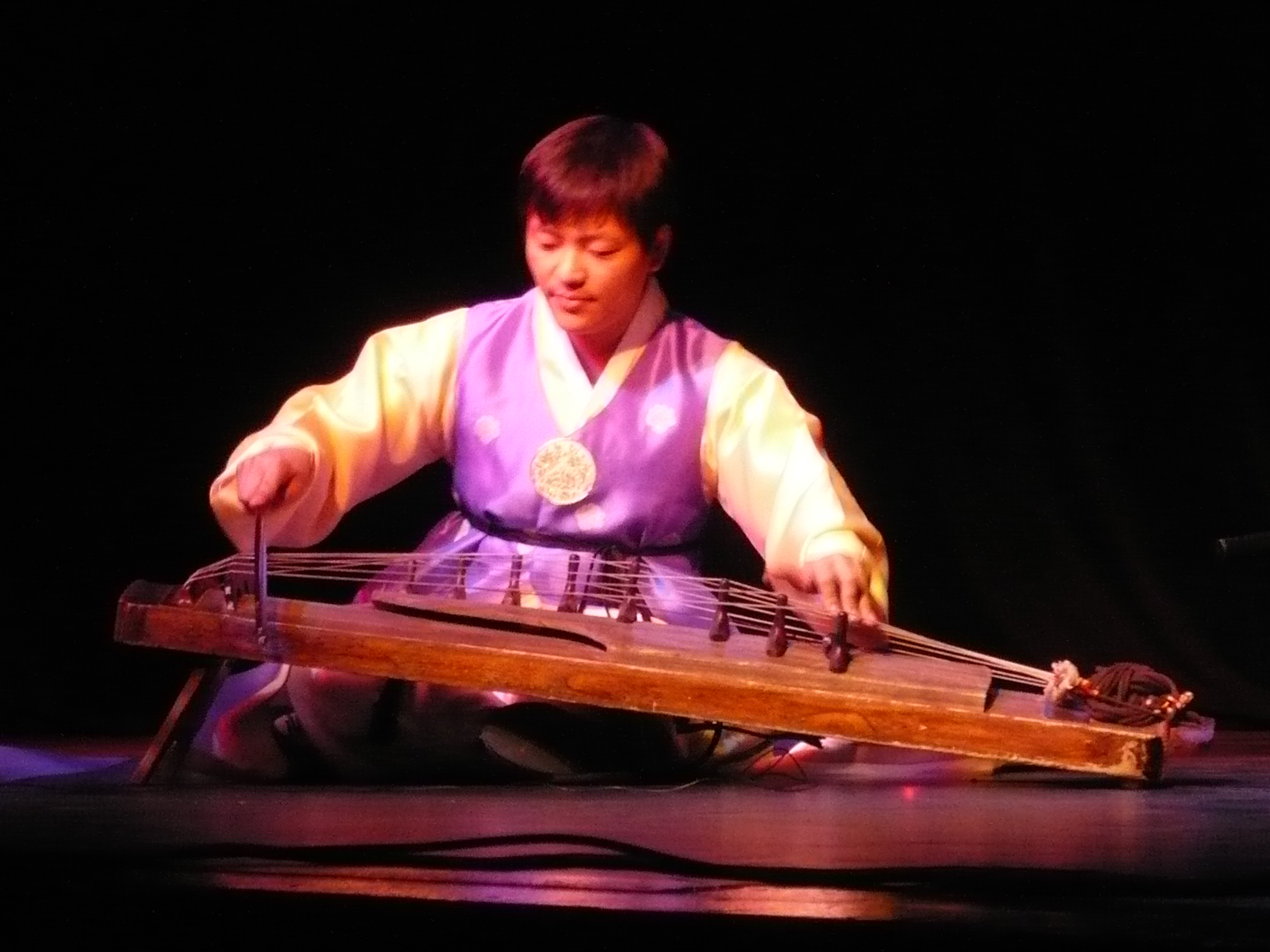 Shin Hyeon-sik (graduate student at the School of Traditional Korean Arts, Korea National University of Arts in Seoul, South Korea) playing the ajaeng (bowed Korean zither). Photo taken at the Kent Stage in Kent, Ohio, United States.